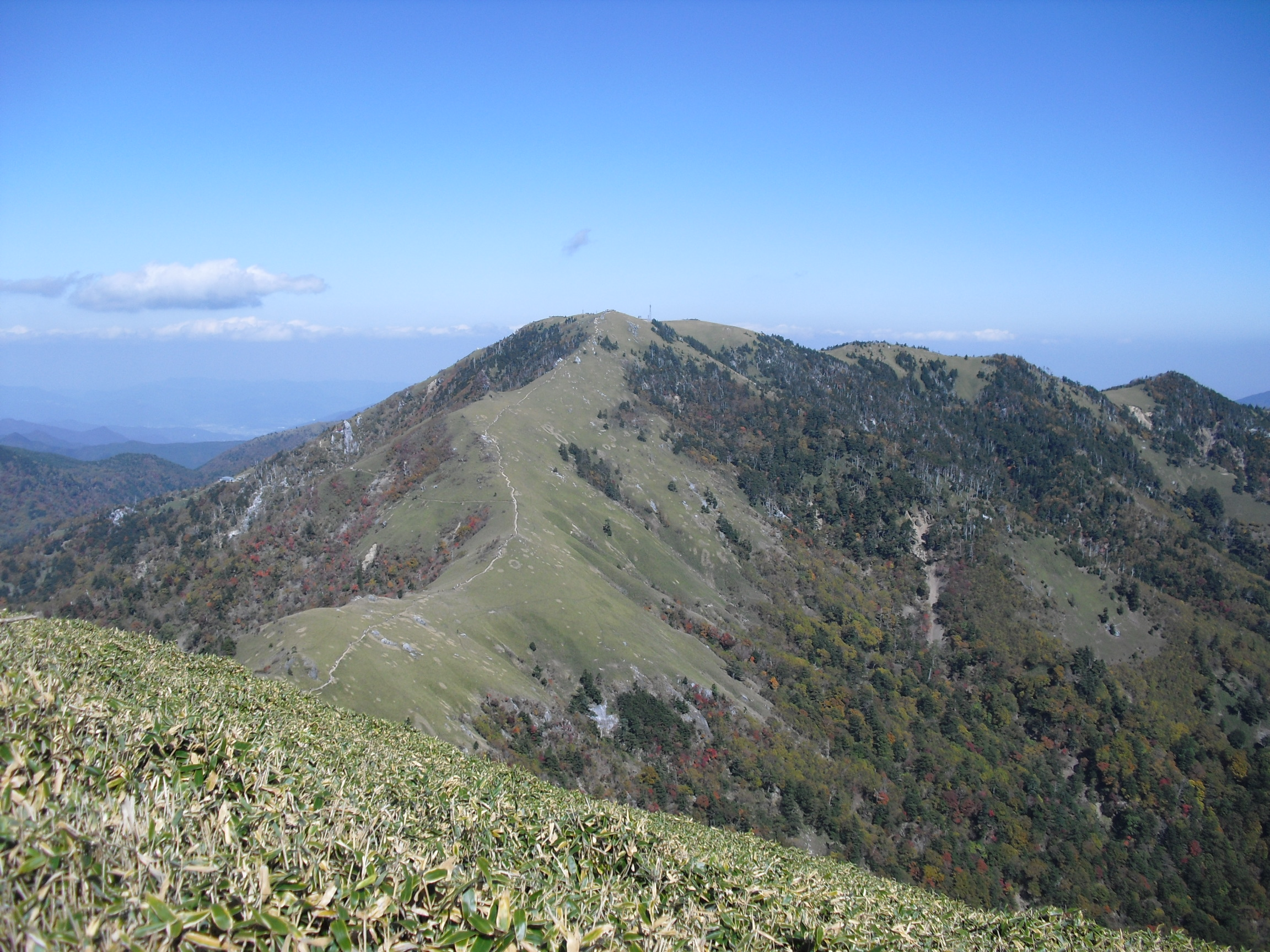 Mount Tsurugi as seen from the southwest. Taken from Mount Jirogyu.